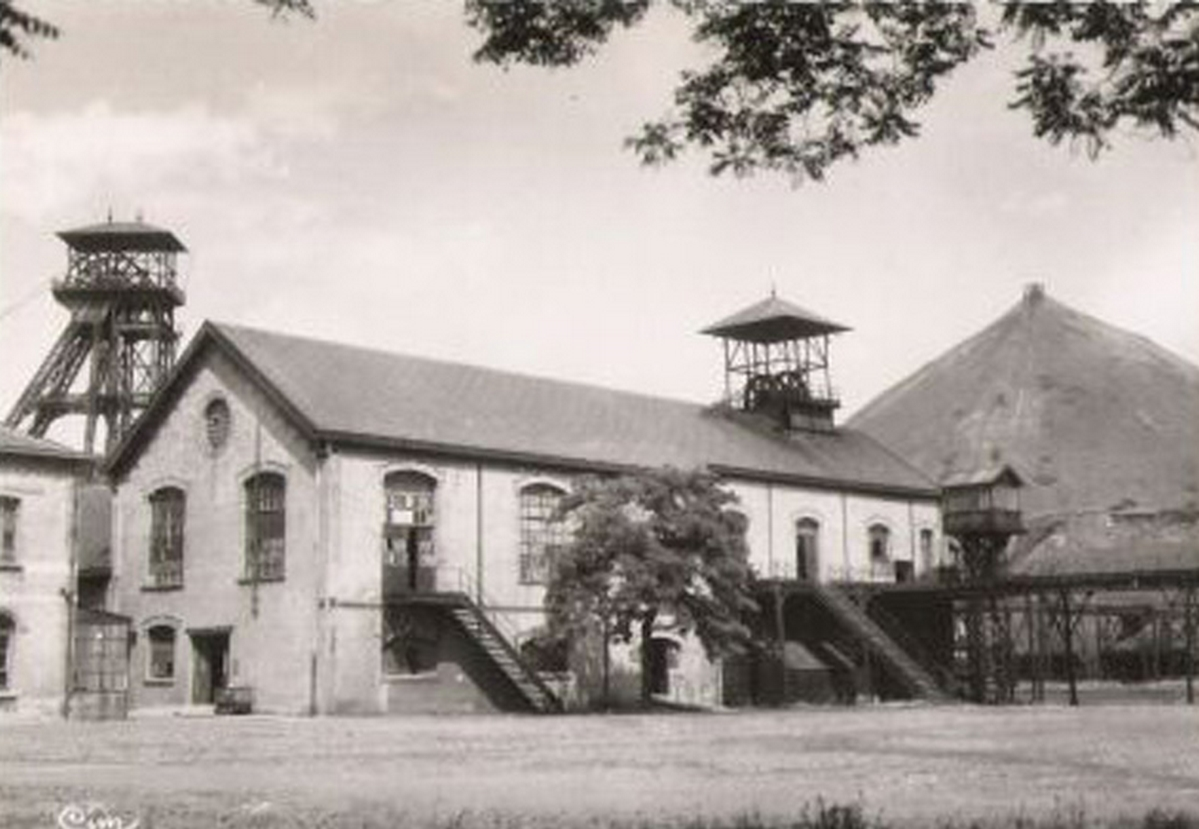 Compagnie des mines de Dourges, Pas-de-Calais, France.